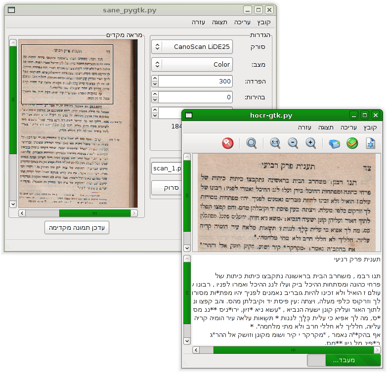 hocr-gtk graphical user interface of libhocr reading and old text